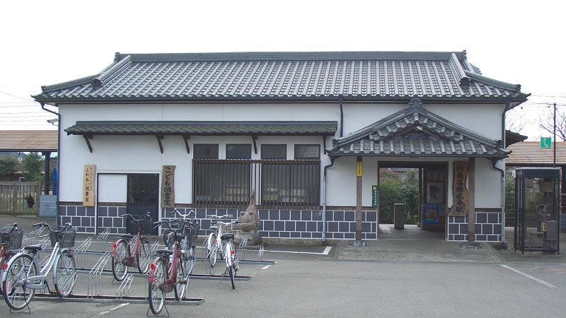 Kumagawa Railroad Sagarahan ganjoji Station, 14 March 2007